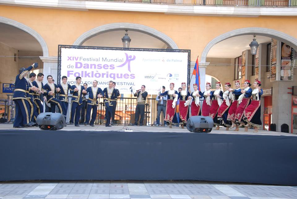 Կարին երգի-պարի համույթը Ֆնջան պարելիս